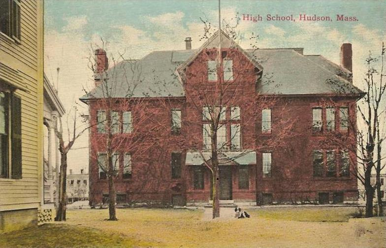 The Felton Street School, Hudson, Massachusetts. Designed by architects Fuller & Delano of Worcester, Massachusetts, it was built in 1882, served as high school until 1956, and was listed on the National Register of Historic Places in 1986.